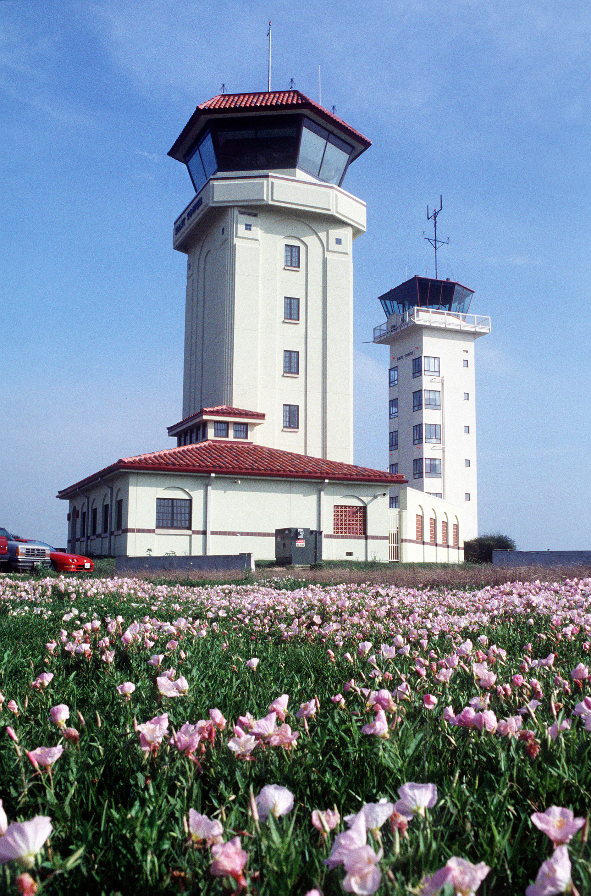 The new east control tower at Randolph Air Force Base which commenced full time operations when the 12th Operations Support Squadron personnel began work on 7 April 1997. The old tower is scheduled to be demolished to make way for construction of a parking lot during the coming weeks.Location: RANDOLPH AIR FORCE BASE, TEXAS (TX) UNITED STATES OF AMERICA (USA)